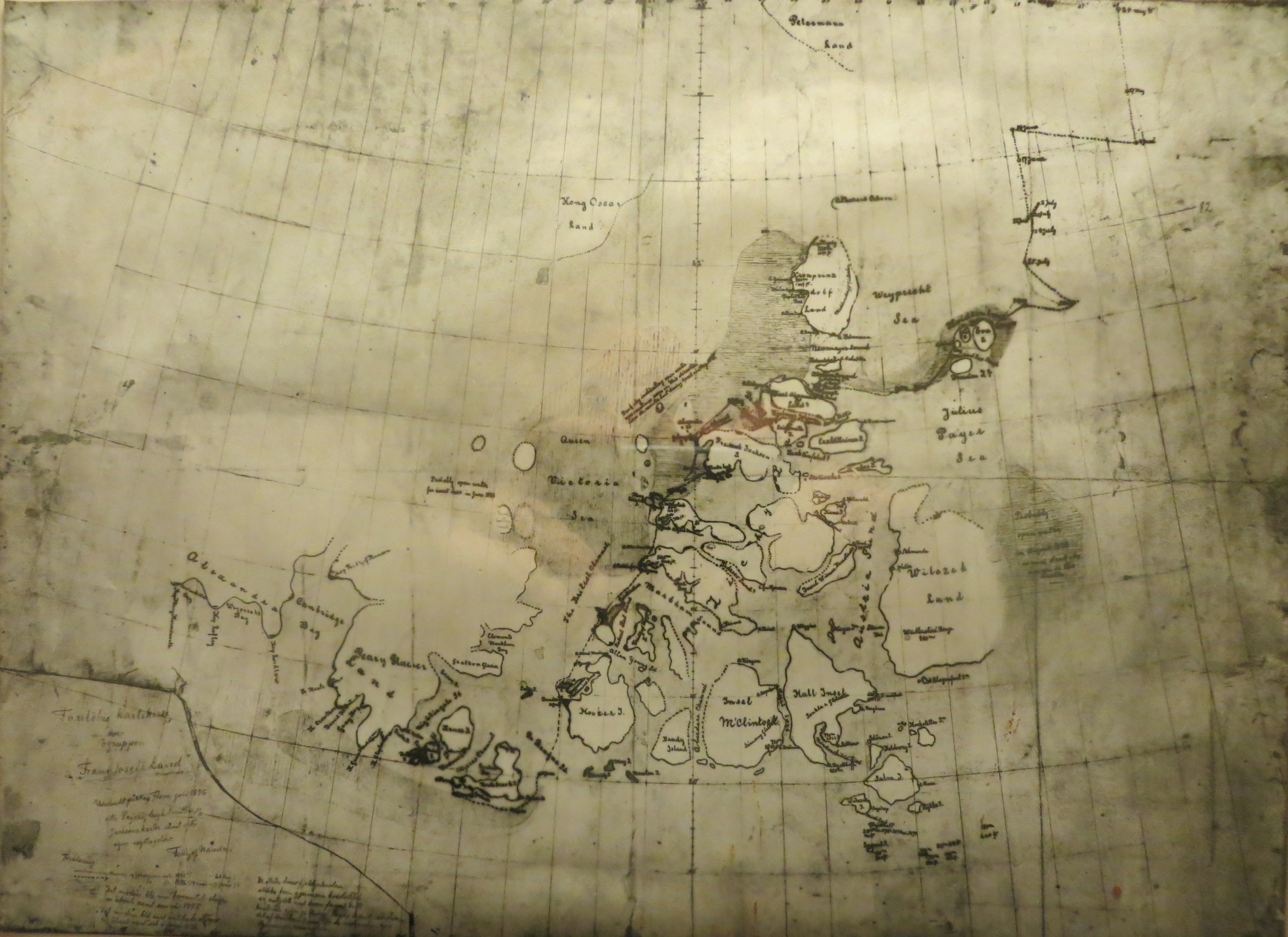 Artifacts from the Fram museum in Oslo, Norway. This is the route taken by Fridtjof Nansen and Hjalmar Johansen during their 1895-96 expedition towards the North Pole, which ended at Franz Josef Land.